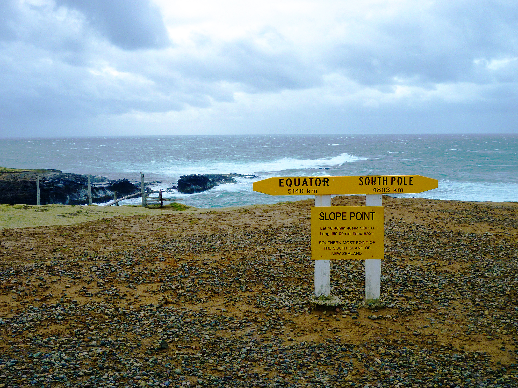 Picture of the sign posted at Slope Point, NZ. The southern most point of the southern island.